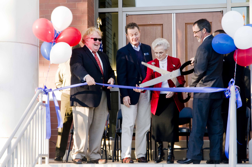 Ribbon cutting. Check out the story at